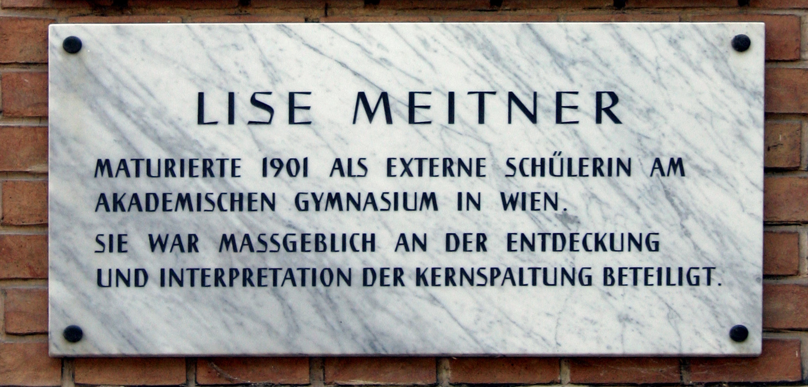 Akademisches Gymnasium, Vienna